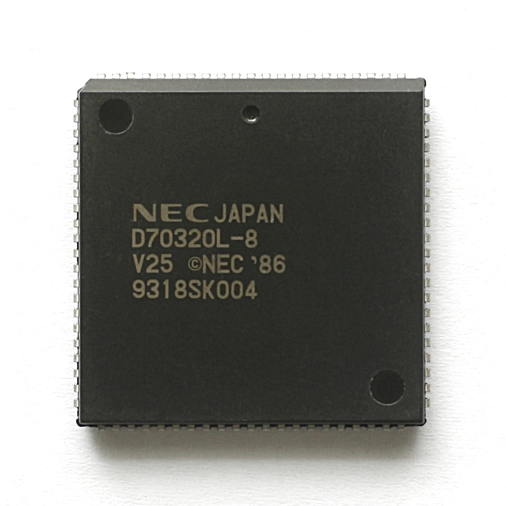 CPU NEC V25 (µPD70320)